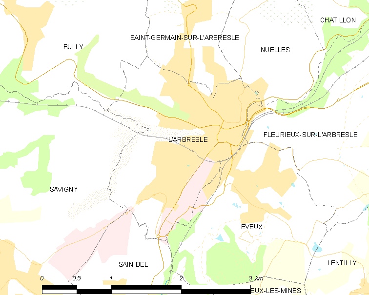 Map of French municipality